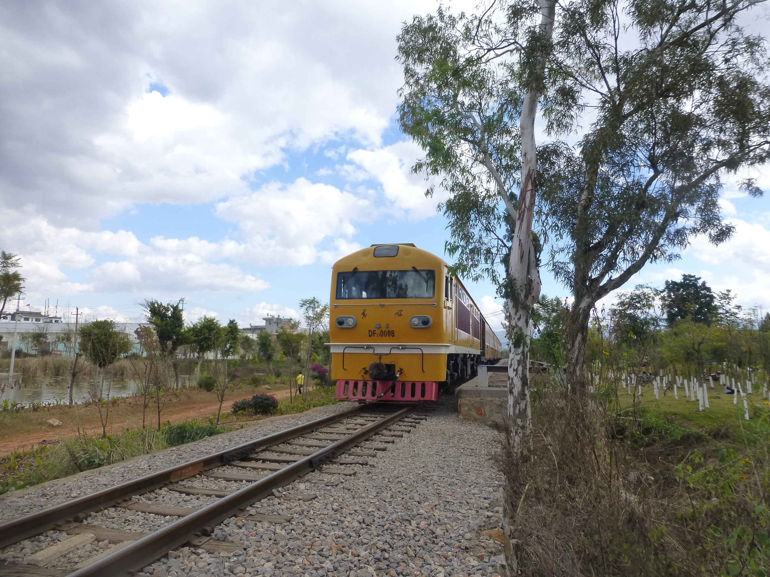 Shuanglongqiao Railway Station, on the Meng-Bao Railway, near the Shuanglong (Double Dragon) bridge southwest of Lin'an Town, Jianshui County. It is a small platform for the tourist train that runs between Lin'an and Tuanshan